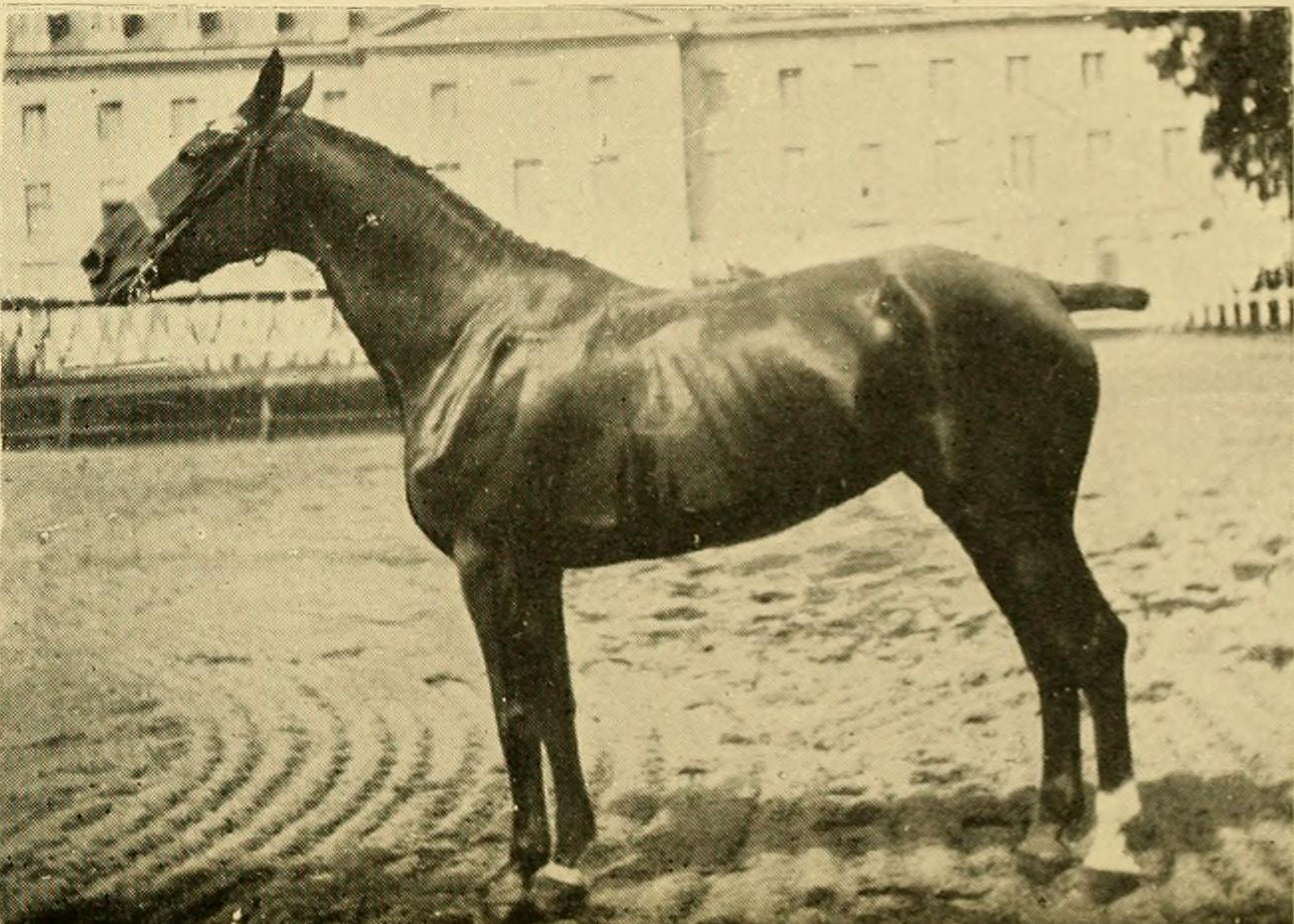 A Charolais horse in Les races chevalines française et anglaises by the Comte de Comminges Marie-Aiymery (1862-1925), J.B Robert, Saumur, 1910.